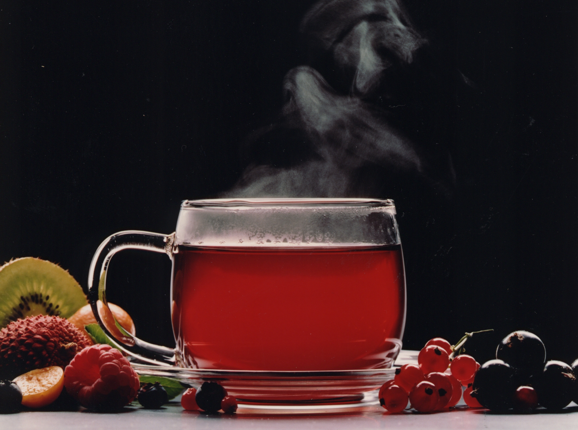 Fruit Tea